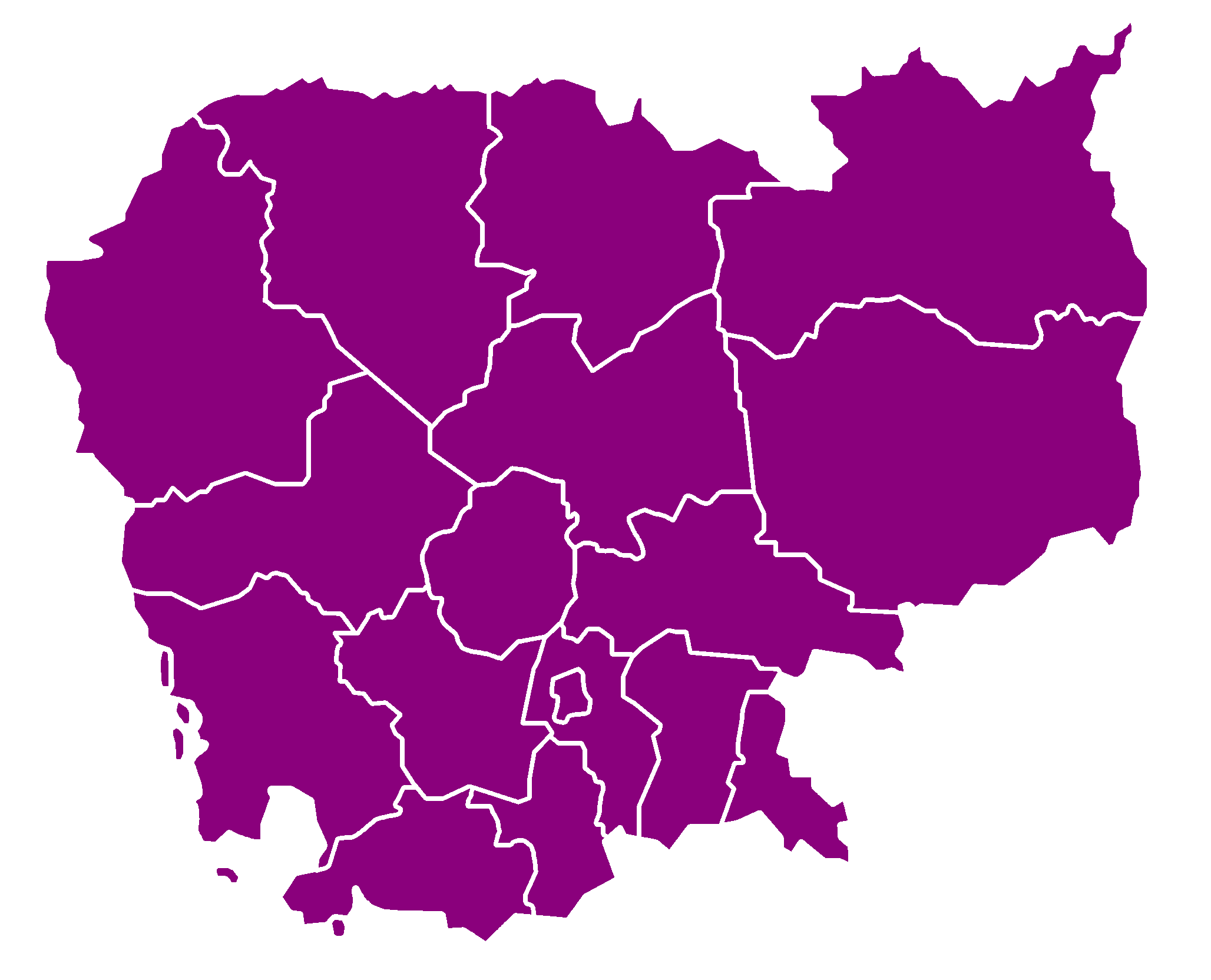 Map of the results of the first cambodian general election, in 1946.